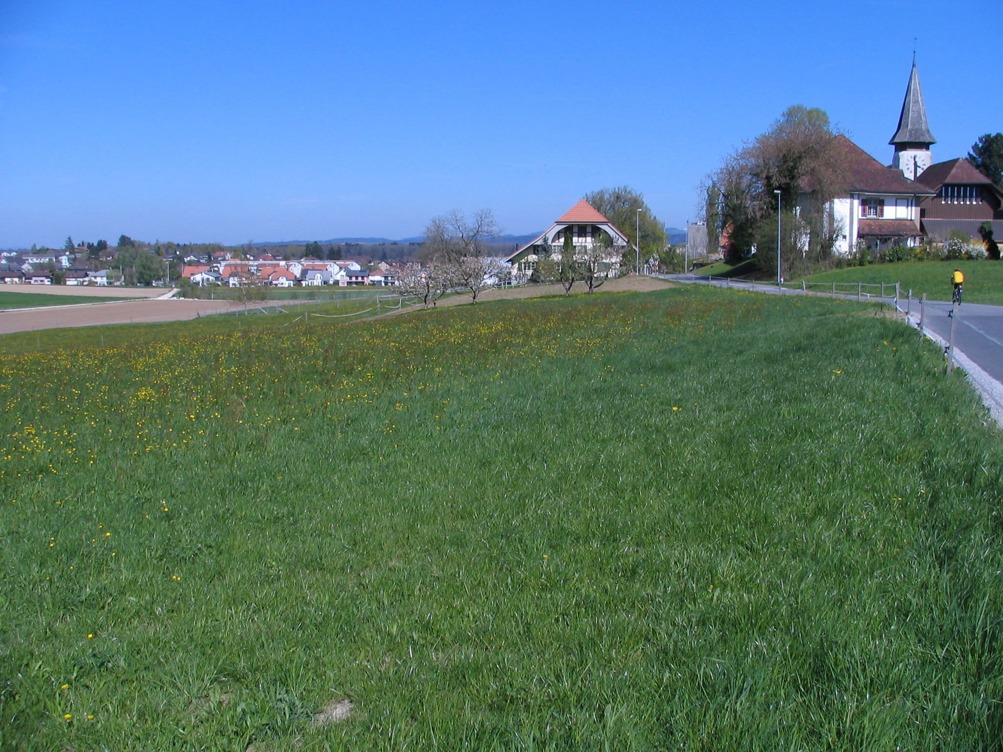 The village Fraubrunnen (left) and the church